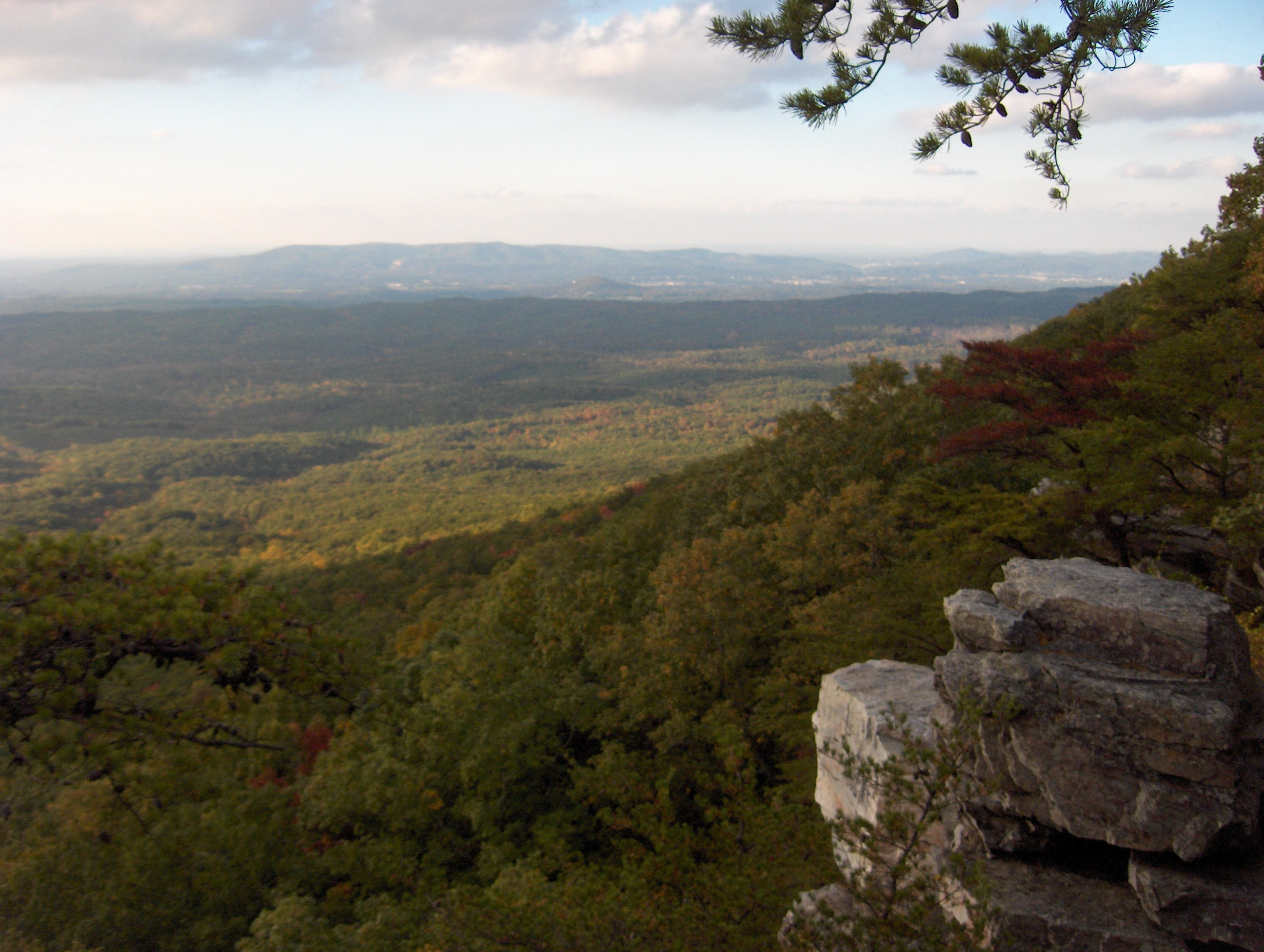 near Cheaha Mountain, high point of Alabama